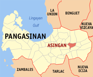 Map of Pangasinan showing the location of Asingan